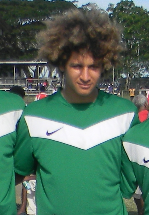 Papua New Guinea footballer Alwin Komolong in 2011 with POMSOE FC